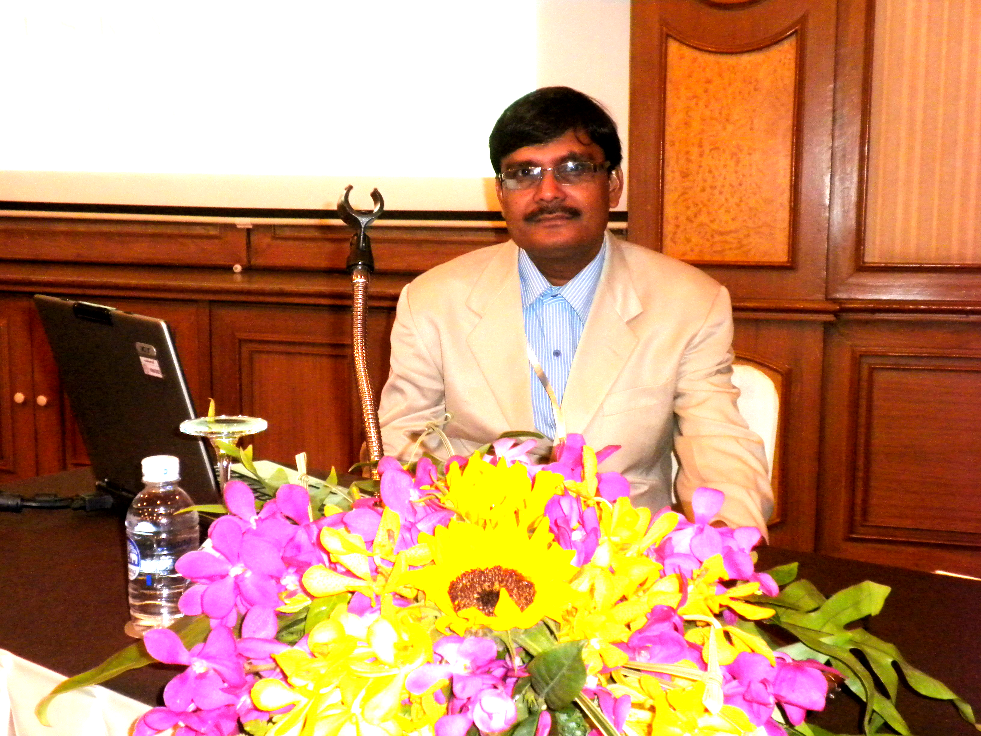 Gouri Sankar Bandyopadhyay delivering a lecture in an international conference at Bangkok, Thailand at Srinakharinwirot University[1]